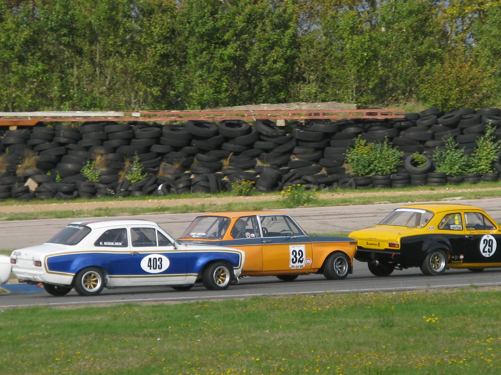 Ford Escort RS+BMW 2002 Ti